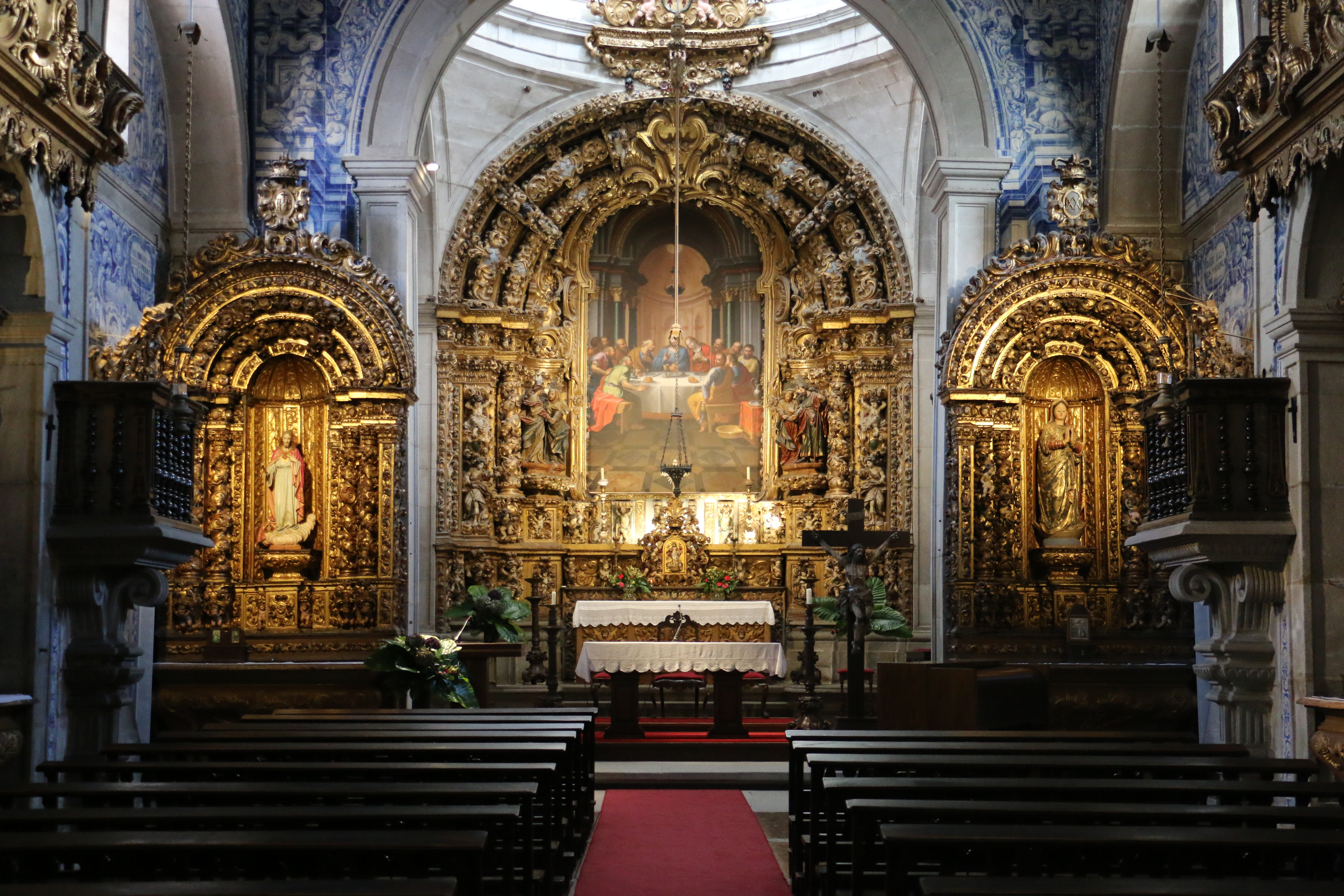 Igreja da Misericórdia, Viana do Castelo, Viana do Castelo, Portugal Igreja da Misericórdia, Viana do Castelo Native nameIgreja da Misericórdia, Viana do CasteloLocationViana do Castelo, Viana do Castelo, PortugalCoordinates41° 41′ 38″ N, 8° 49′ 41″ W Authority control : Q18707370